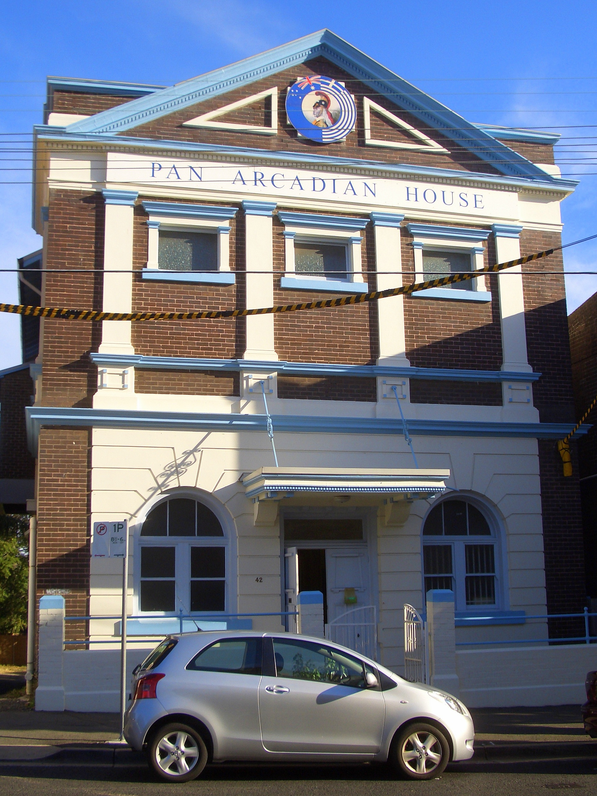 Pan Arcadian Club, The Spot, Randwick, Sydney